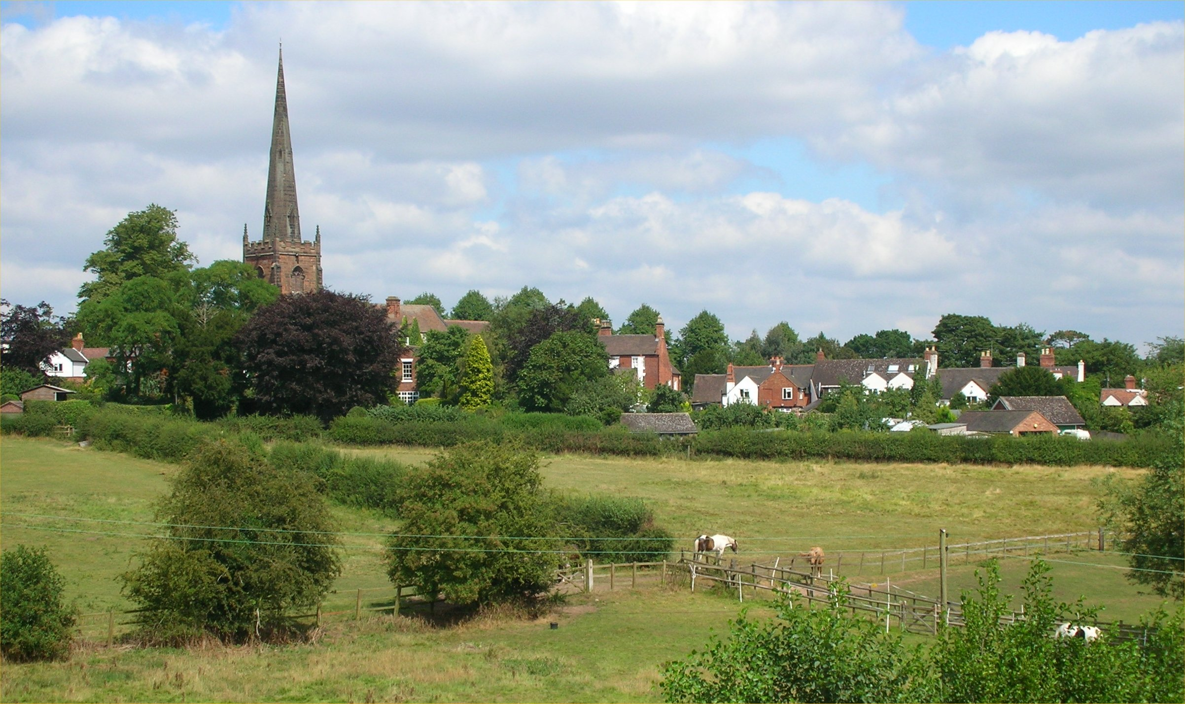 Brewood, Staffordshire, England, photographed from the Shropshire Union Canal on 7 August 2006 by me. Oosoom